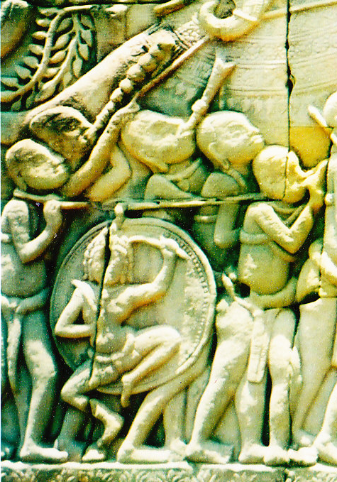 the origin of the music that accompanies pradal serey bouts comes from the Khmer army band that march in to battle with the troops.